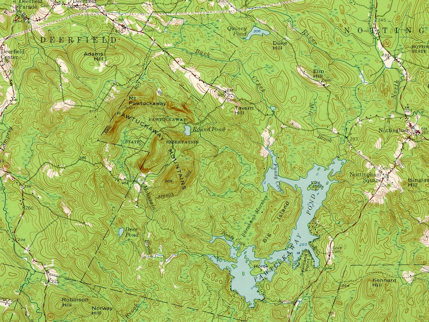 Source was the map "Mount Pawtuckaway, NH" Quadrangle, USGS 15 Minute Series, 1957. Digital scan of a printed map, scan obtained online from the University of New Hampshire Library Digital Collections Initiative